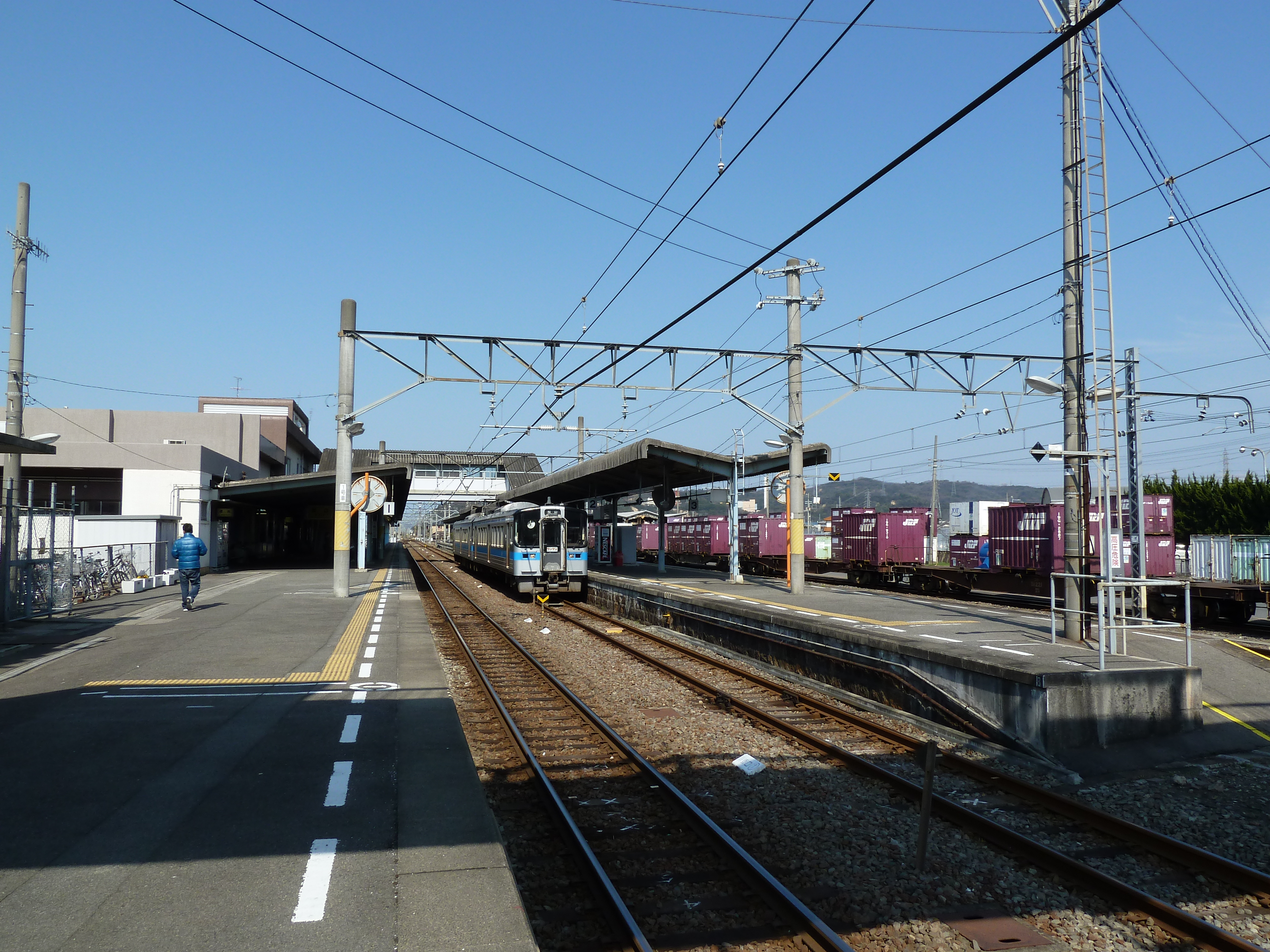 新居浜駅プラットホーム